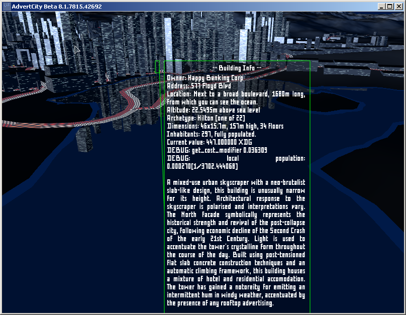 Screenshot from the game AdvertCity